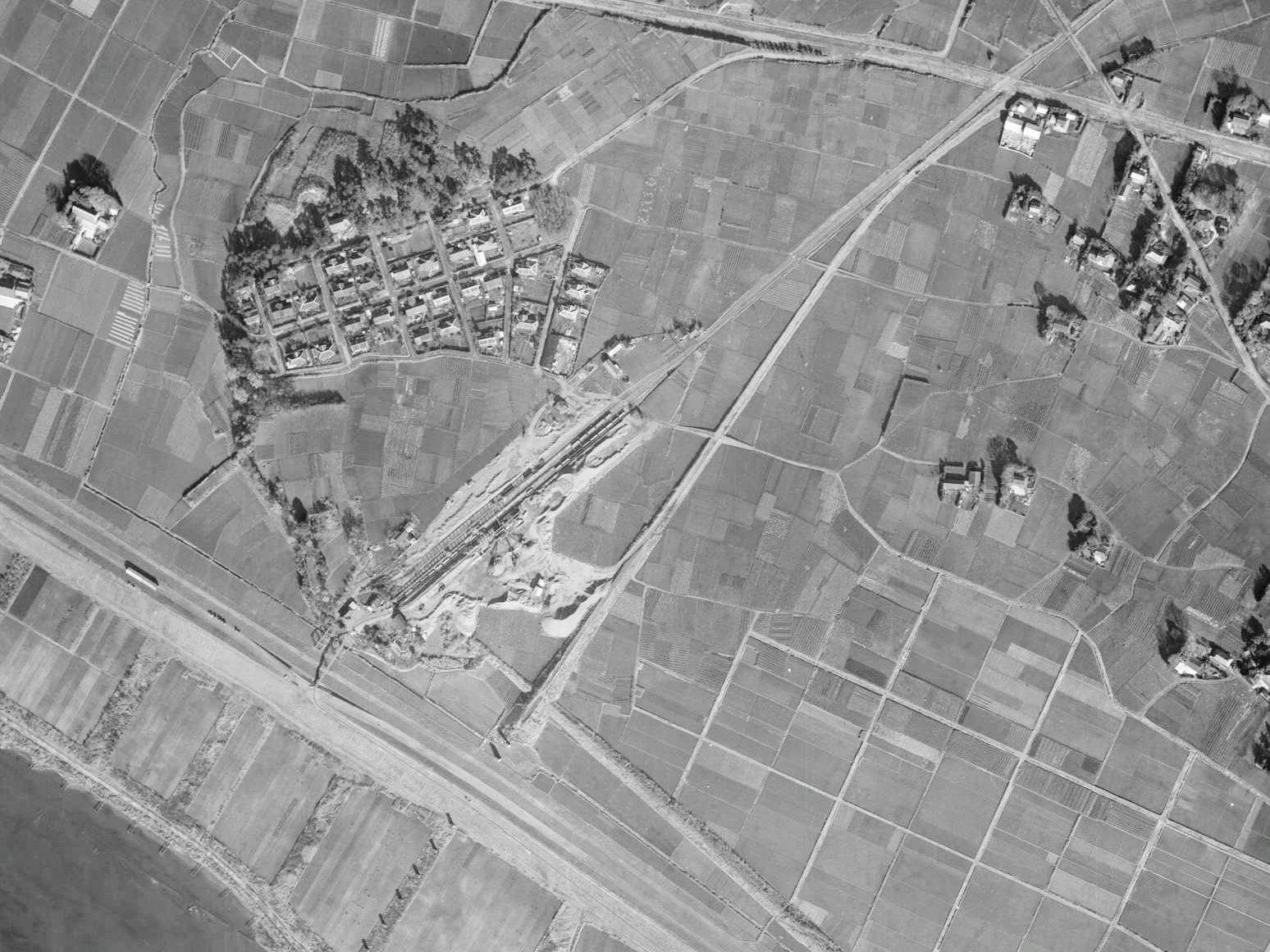 Sengokugashi Station.